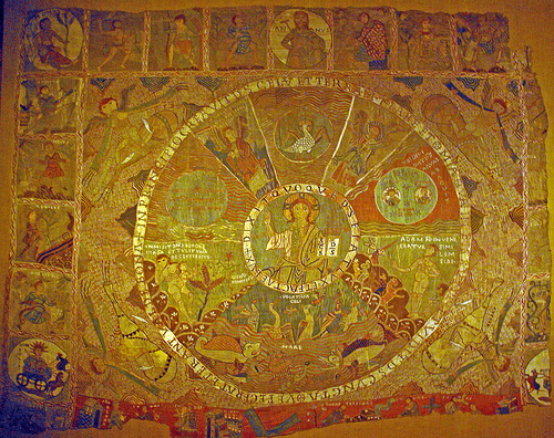 Tapestry of the Creation, 11th – 12th century, tapestry, 365 × 470 cm, Cathedral of Girona, Girona.